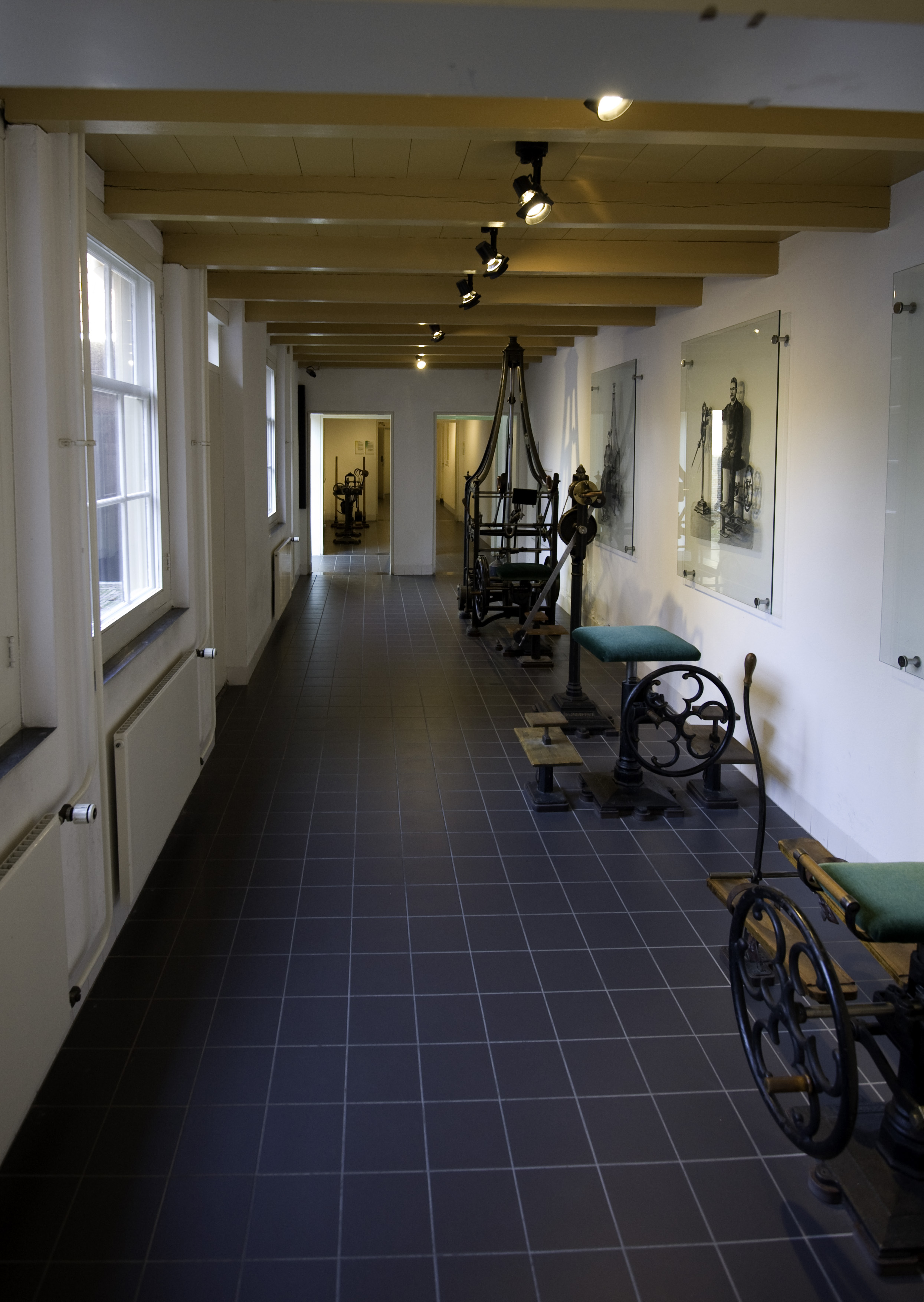 Museum Boerhaave walk-through